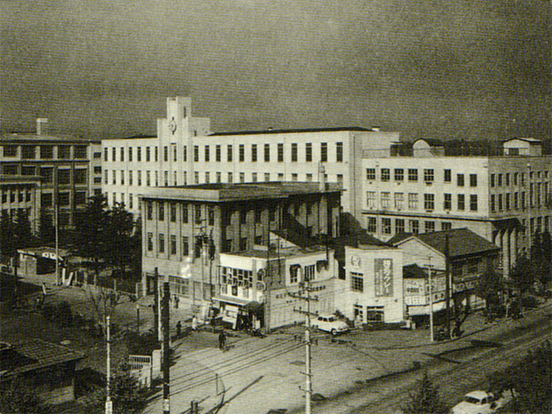 Ritsumeikan Univrsity Hirokoji Campus 1958; Hirokoji-dori Kawaramachi Nishi-iru,Kamikyo-Ku Kyoto-City Kyoto Japan.